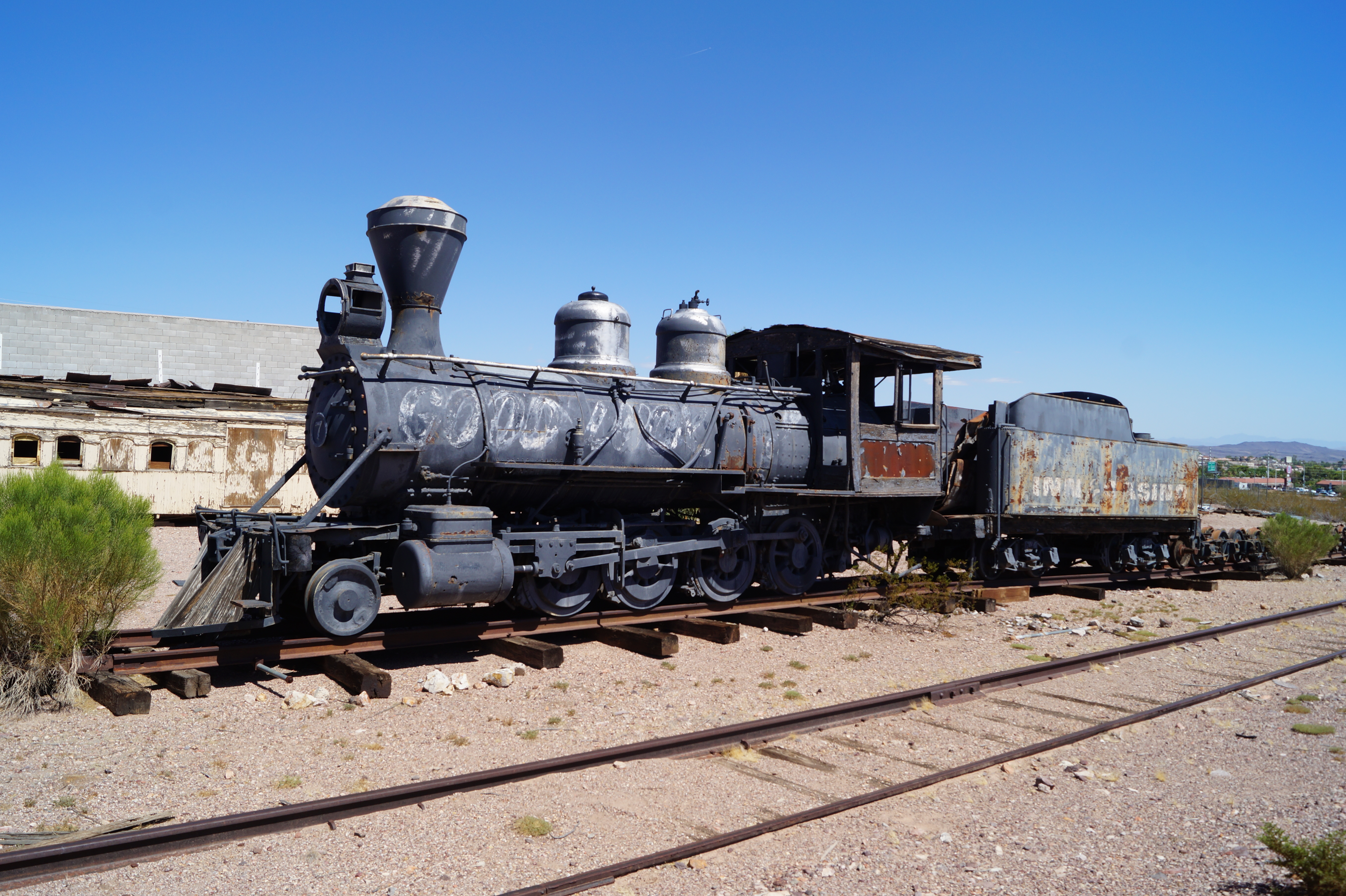 The Nevada State Railroad Museum which is an agency of the Nevada Department of Cultural Affairs. It is located at Yucca Street on the tracks of the historic Union Pacific Railroad branch Henderson-Boulder City near the former Boulder City Railroad Yards where the Hoover Dam construction equipment was unloaded in the 1930s.